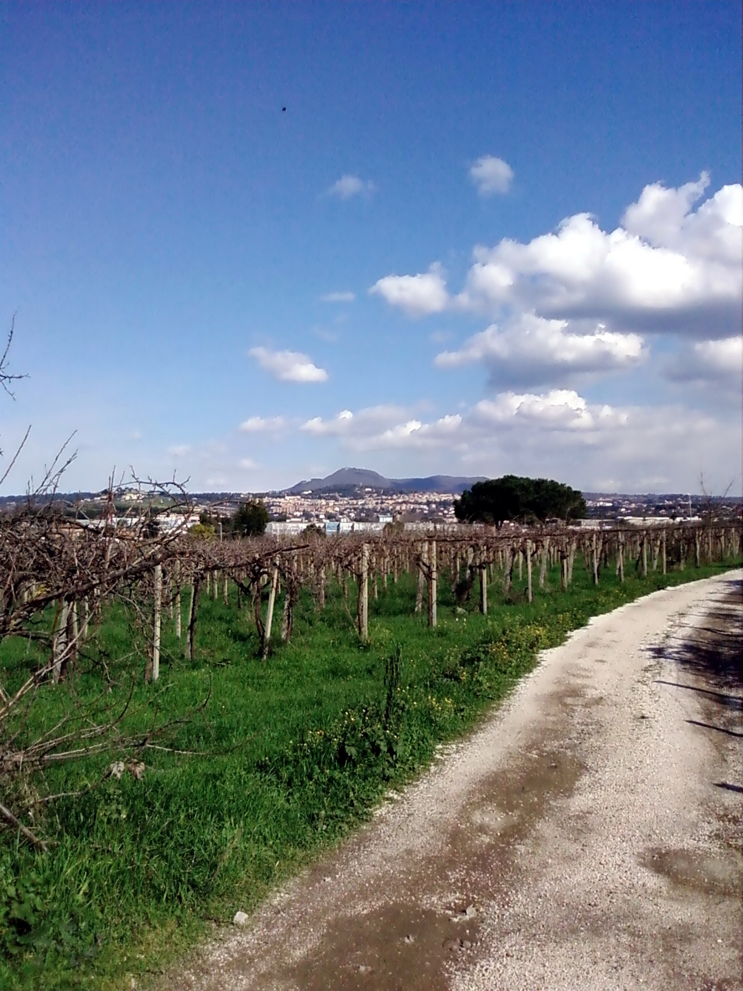 Albano Laziale and the Alban hills